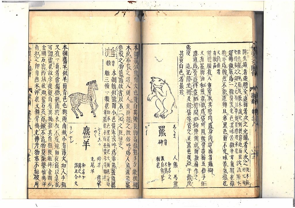 Two pages from the Wakan Sansai Zue (1712)